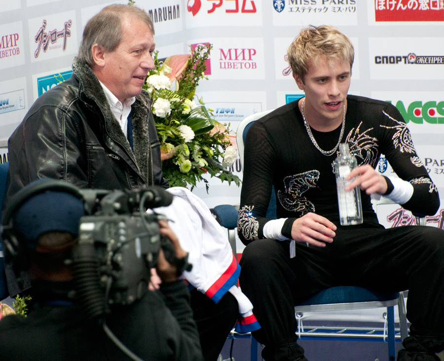 Březina with his coach Petr Starec at the 2011 Cup of Russia, after short program.